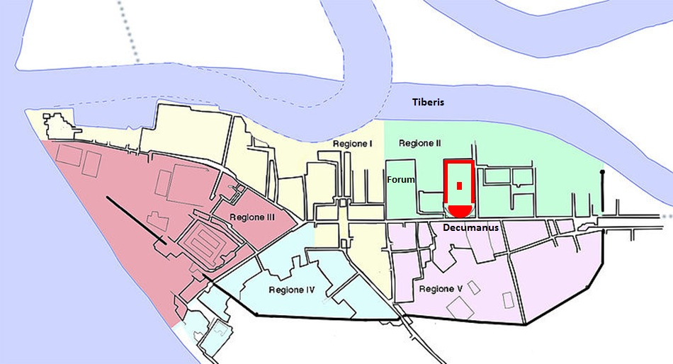 En red color, place of theater and Corporation square in Ostia antica